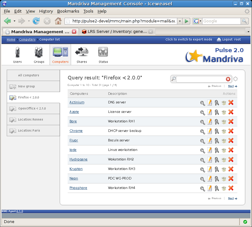 mandrivaPulse.png